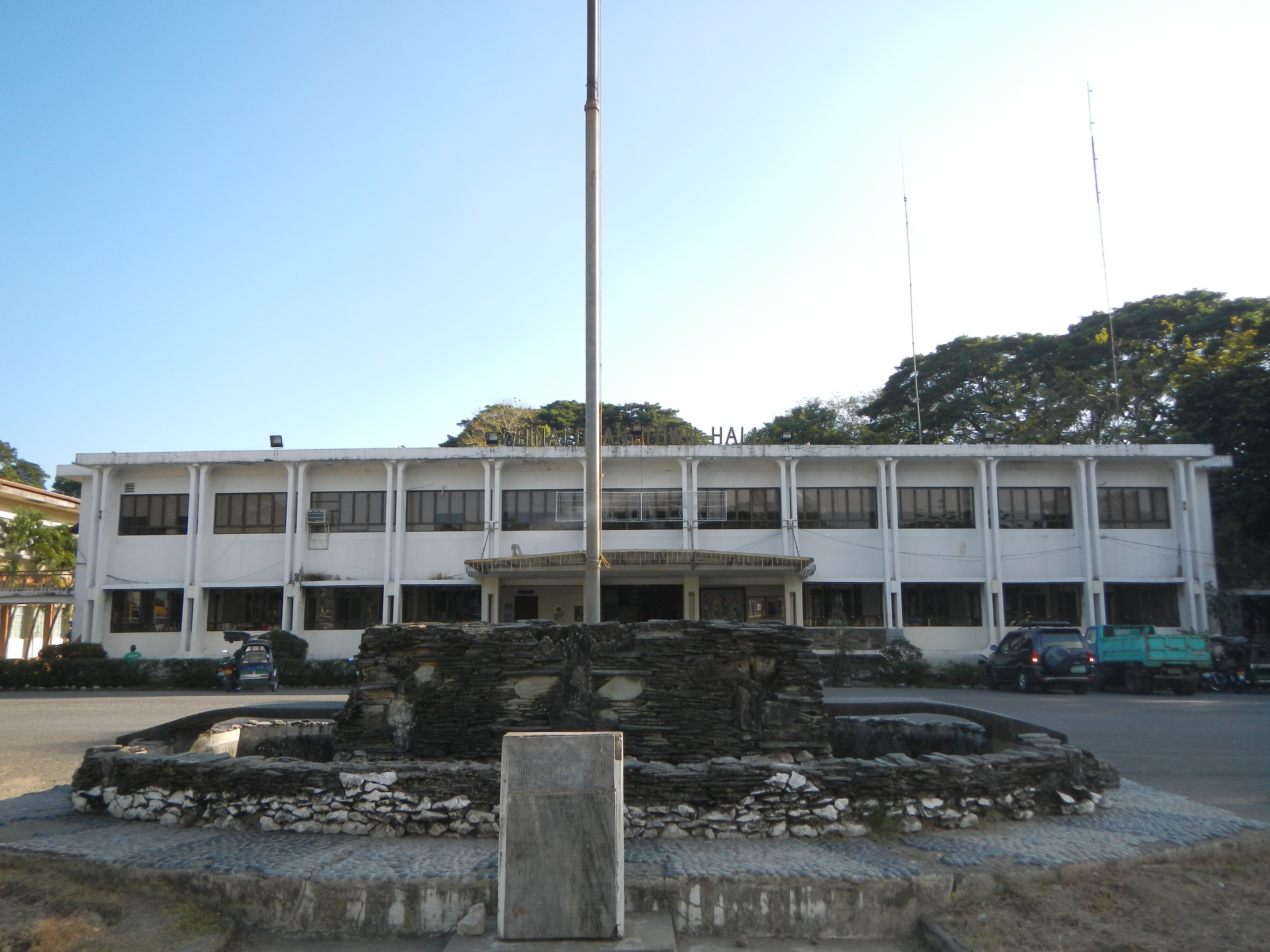 Binalonan, Pangasinan Town Hall including its Binalonan, Pangasinan Municipal Park, Auditorium and Gymnasium beside the 1841 Holy Child Church Parish Church, Parish of the Holy Child Church Urdaneta, Roman Catholic Diocese of Urdaneta in Barangay Poblacion beside Canarvacanan and Linmansangan, Binalonan, Pangasinan, Pangasinan Province.